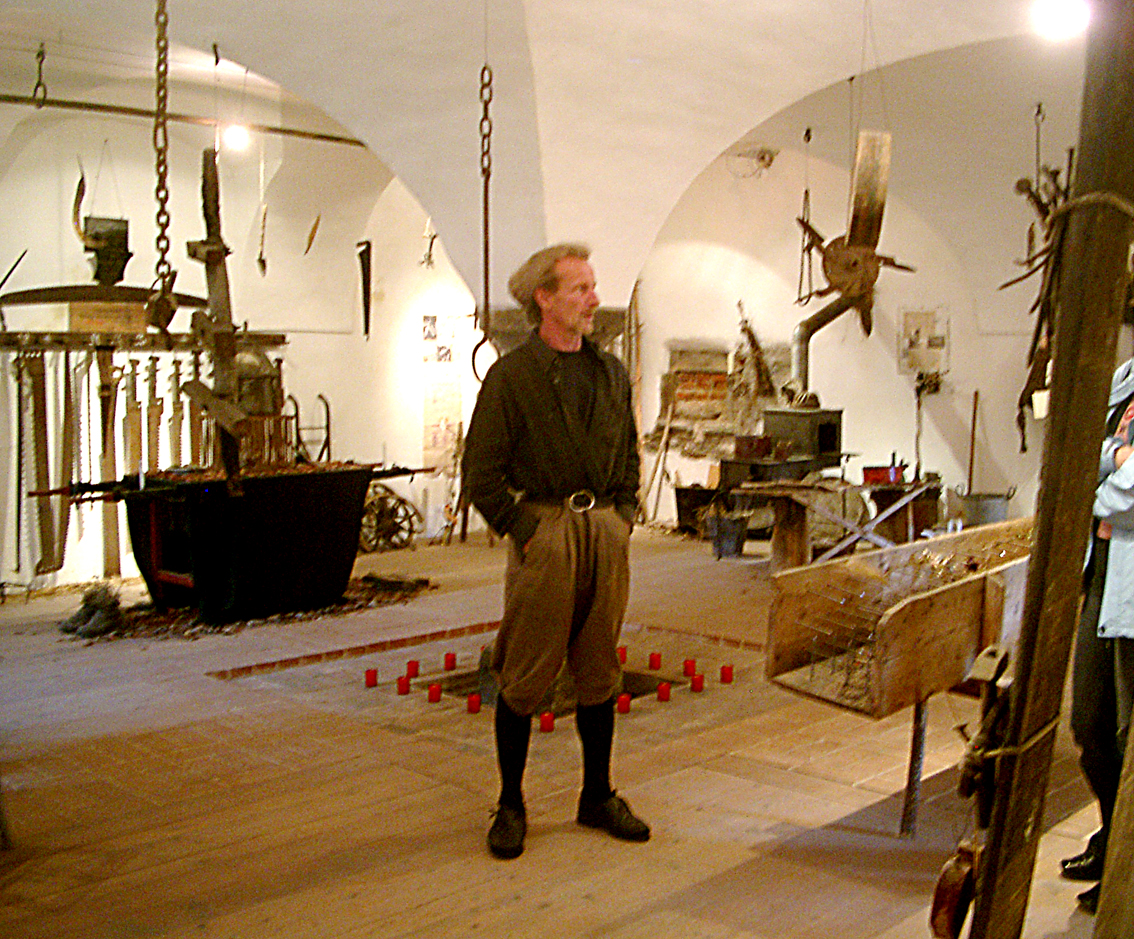 Aramis (Hans Peter Sagmüller) in Schloss Lind bei Neumarkt, Steiermark